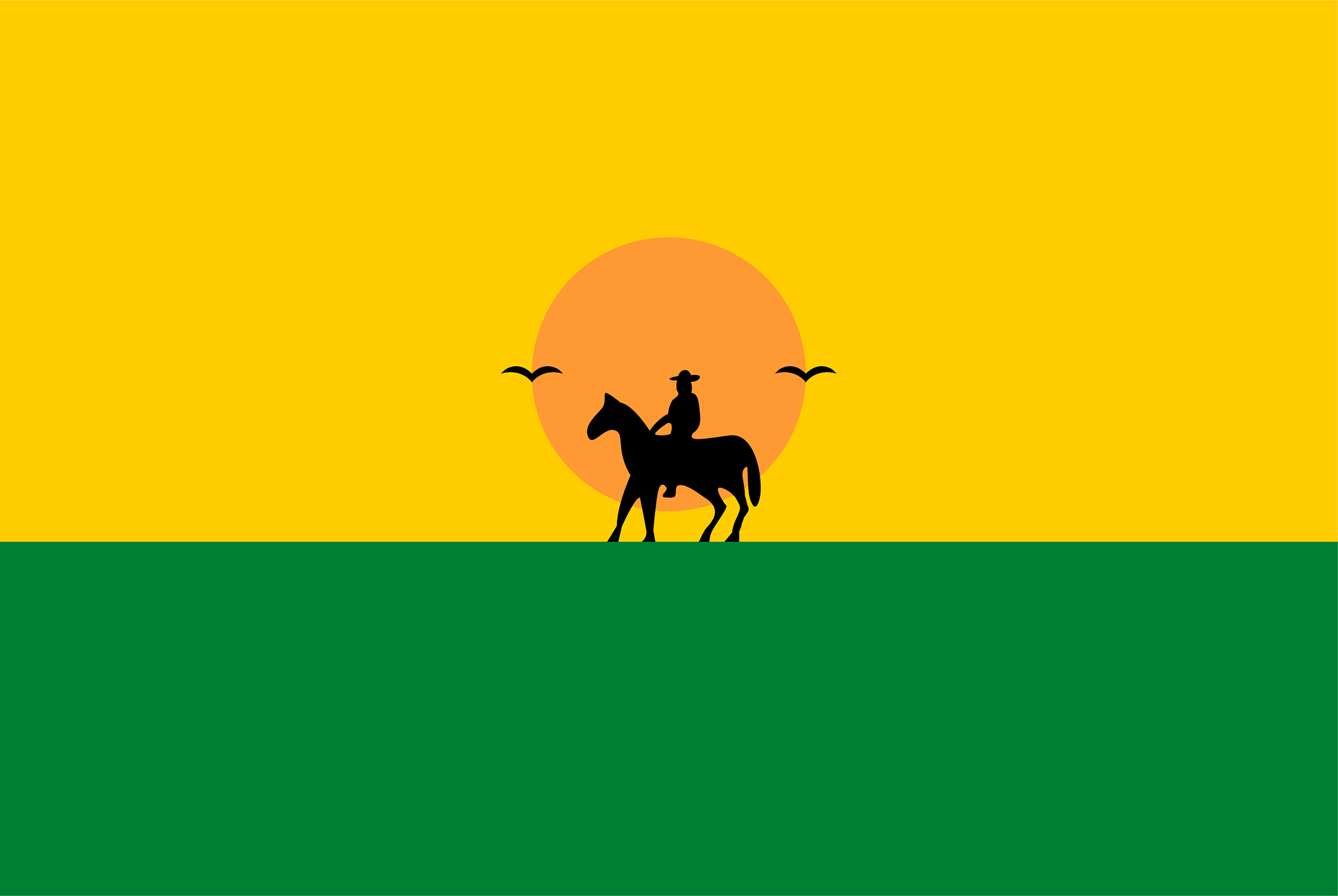 Flag of the Alto Apure District, Apure State, Venezuela